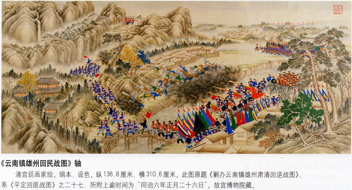 A battle of the Panthay Rebellion (1856–1873)